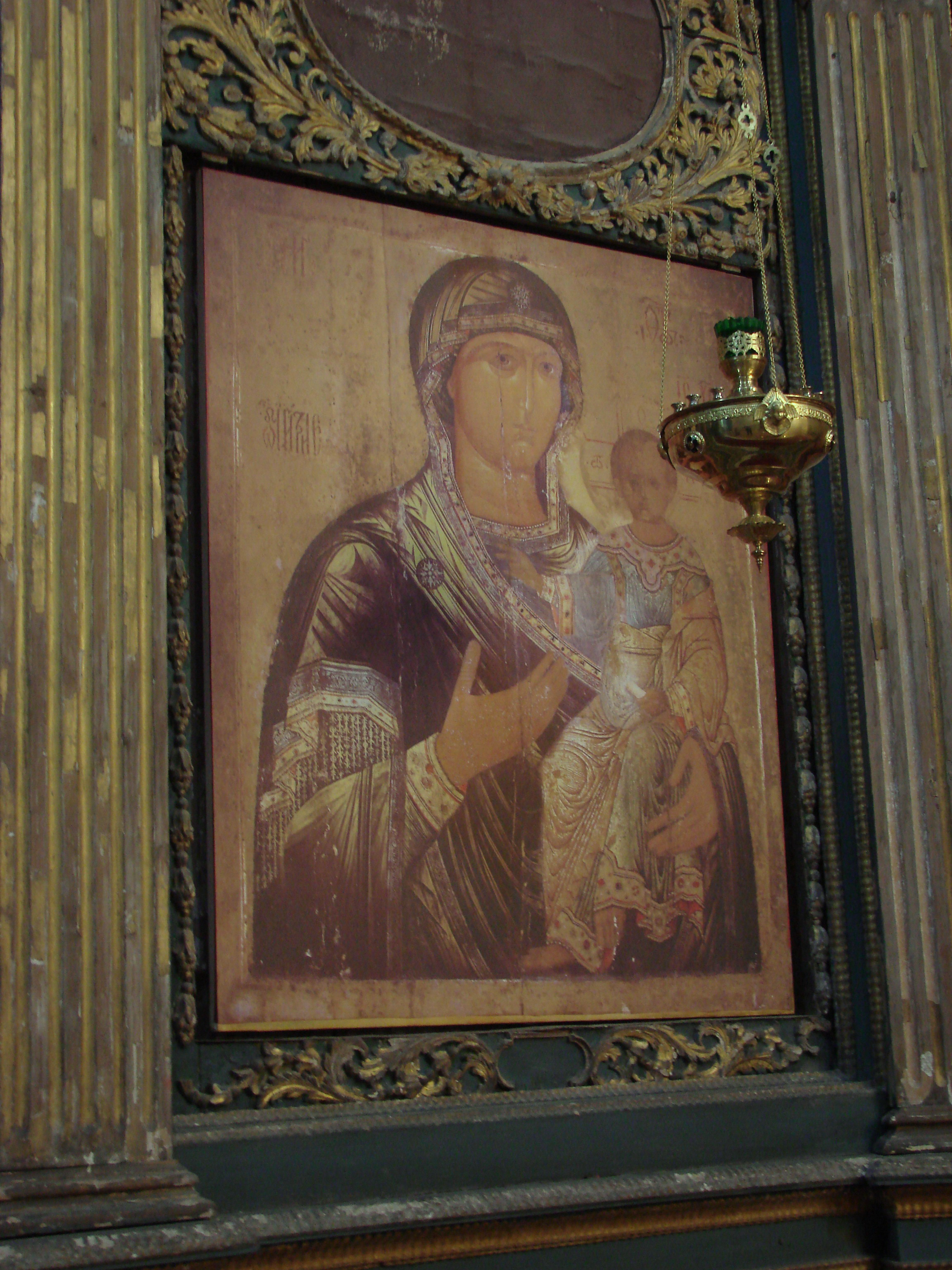 Russia, Vologda, Saint Sophia Cathedral